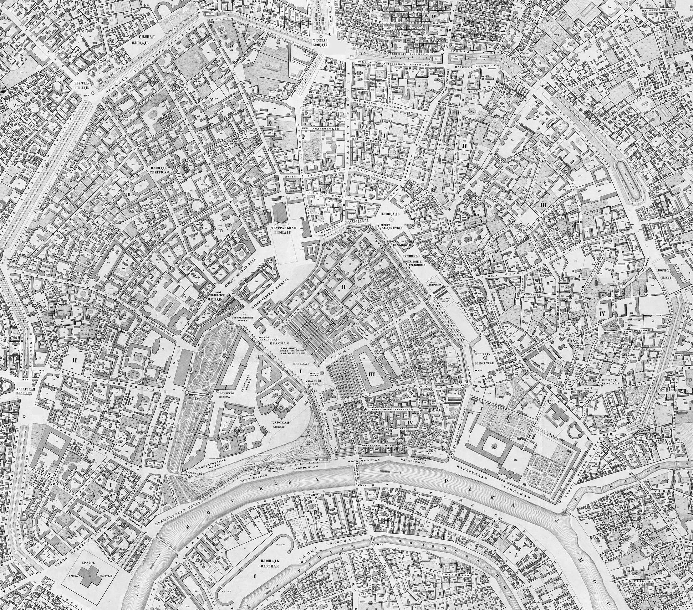 Excerpt from Khotev's Atlas of Moscow: Boulevard Ring area.